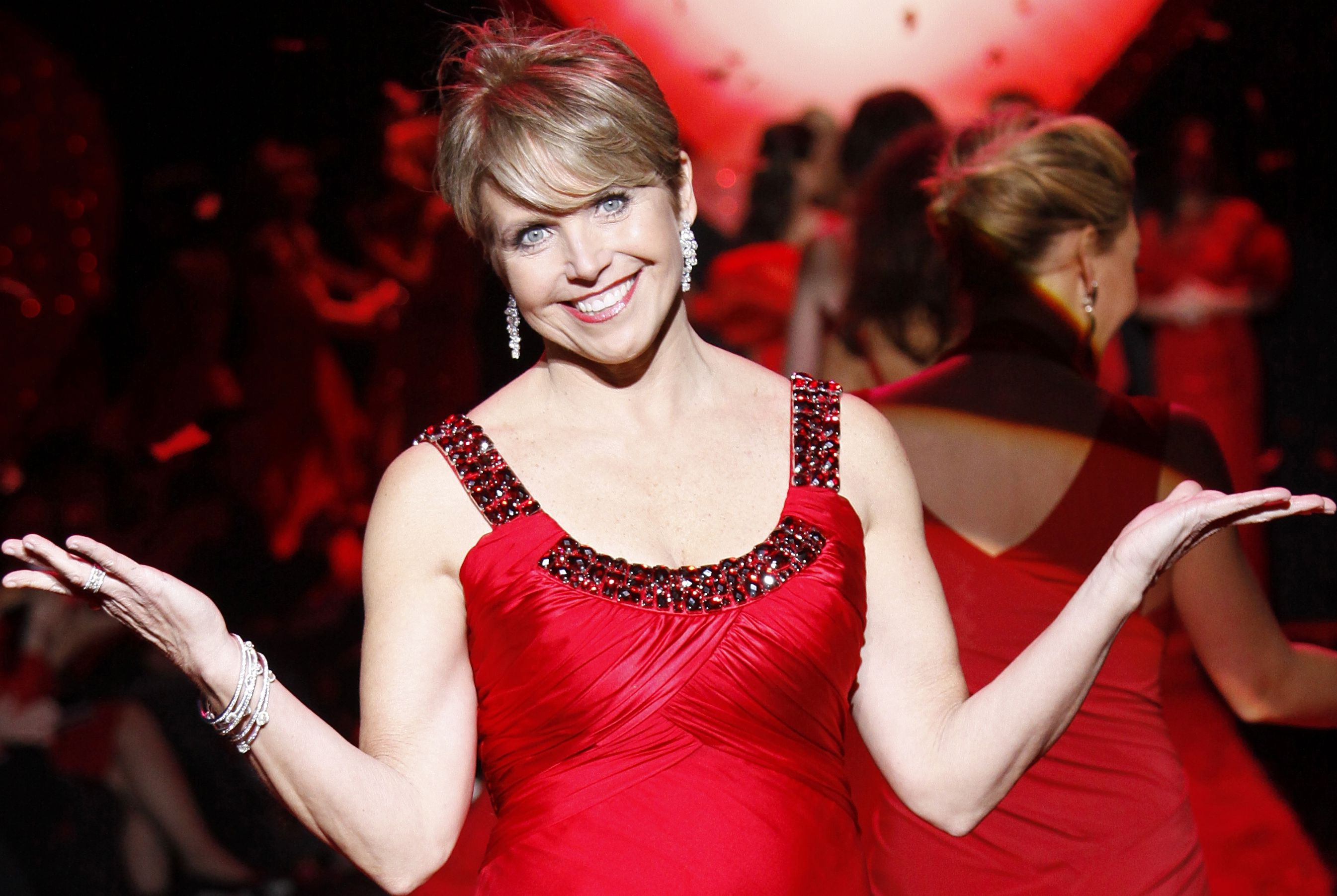 Katie Couric on the runway at The Heart Truth's Red Dress Collection Fashion Show during New York Fashion Week. February 13, 2009 at Bryant Park.